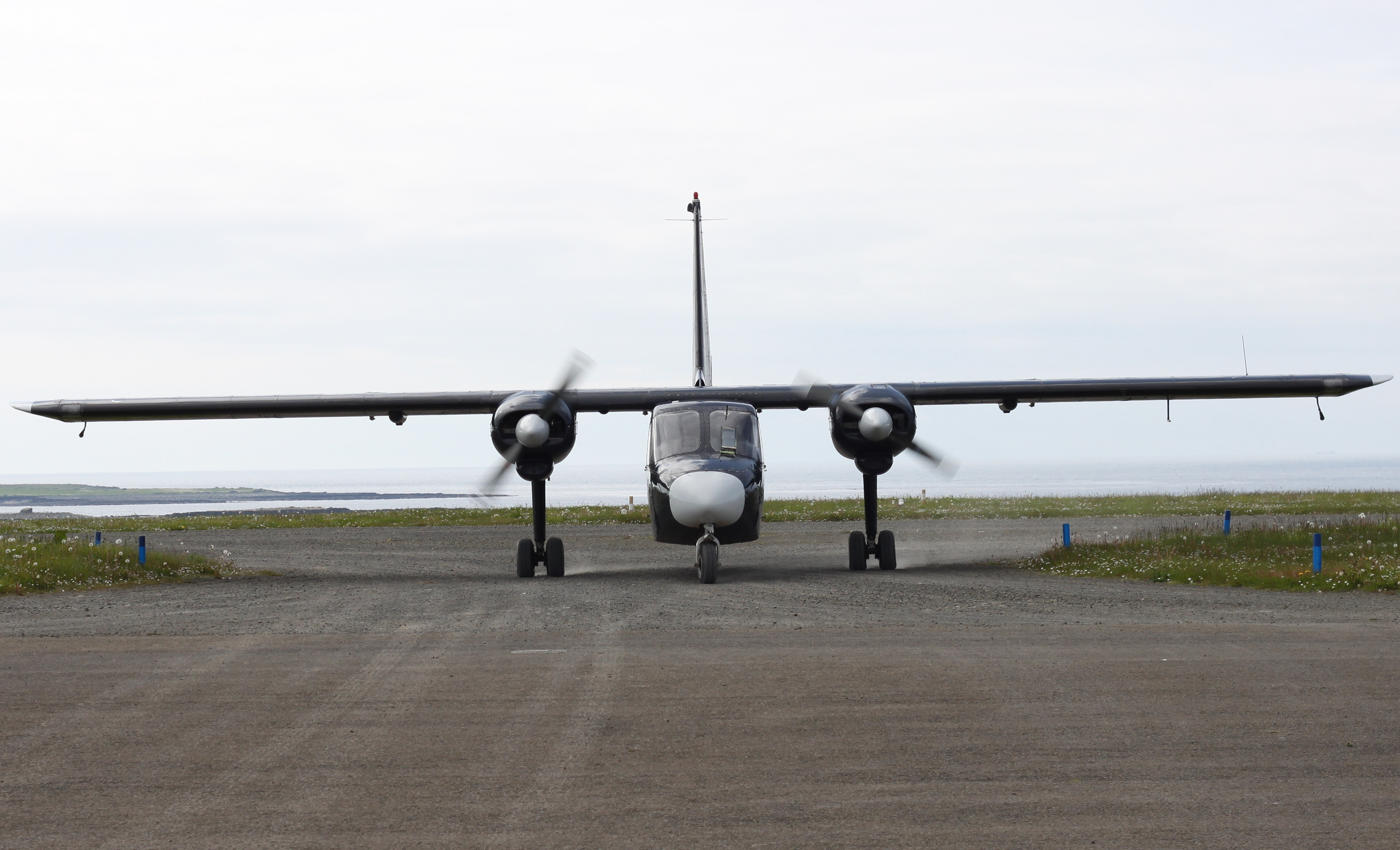 Britten-Norman Islander owned by Loganair taxiing at Papa Westray